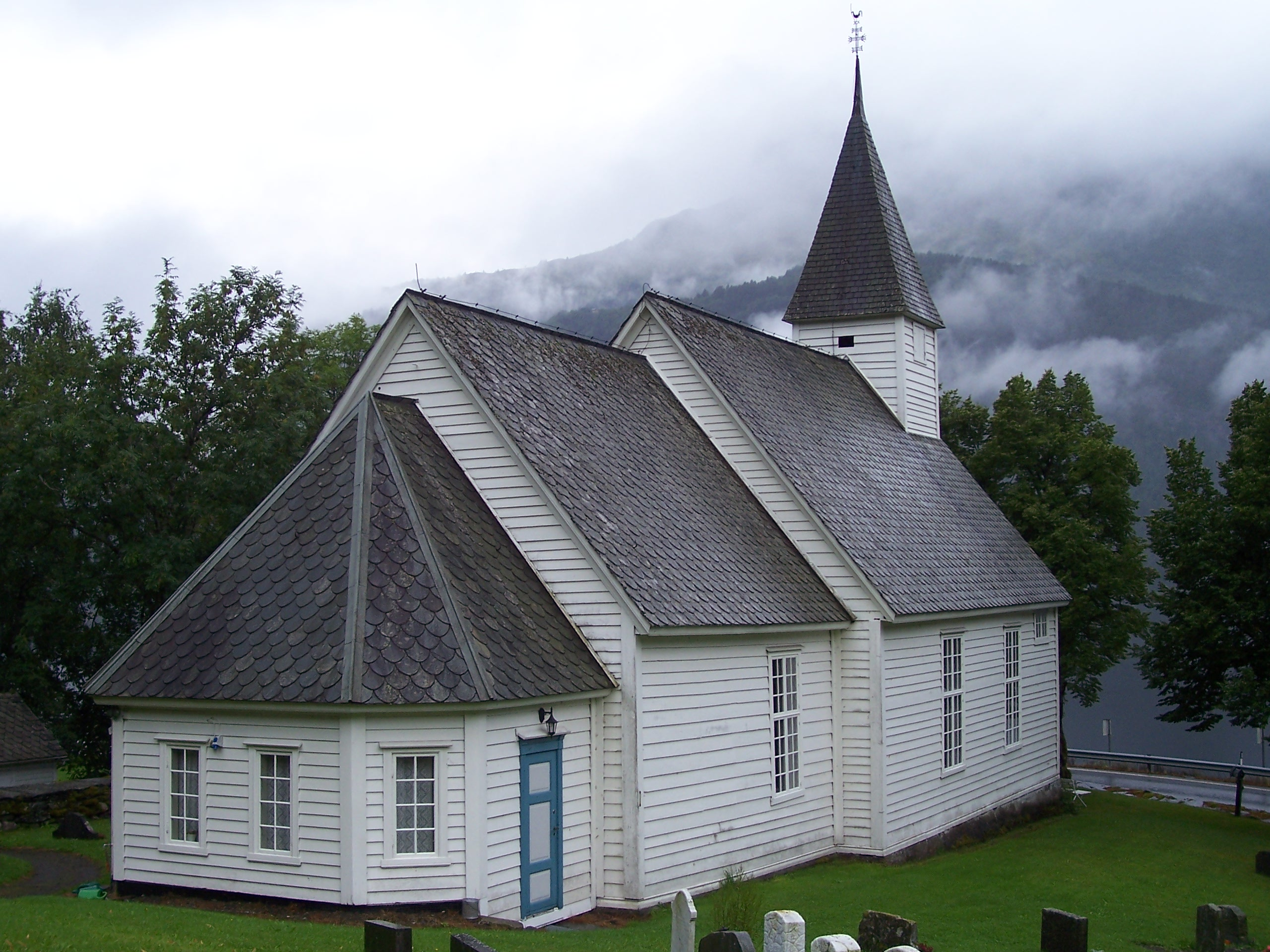 The swirling clouds only make this picture even more atmospheric. Taken on day 9 of our fjord based holiday in Norway.